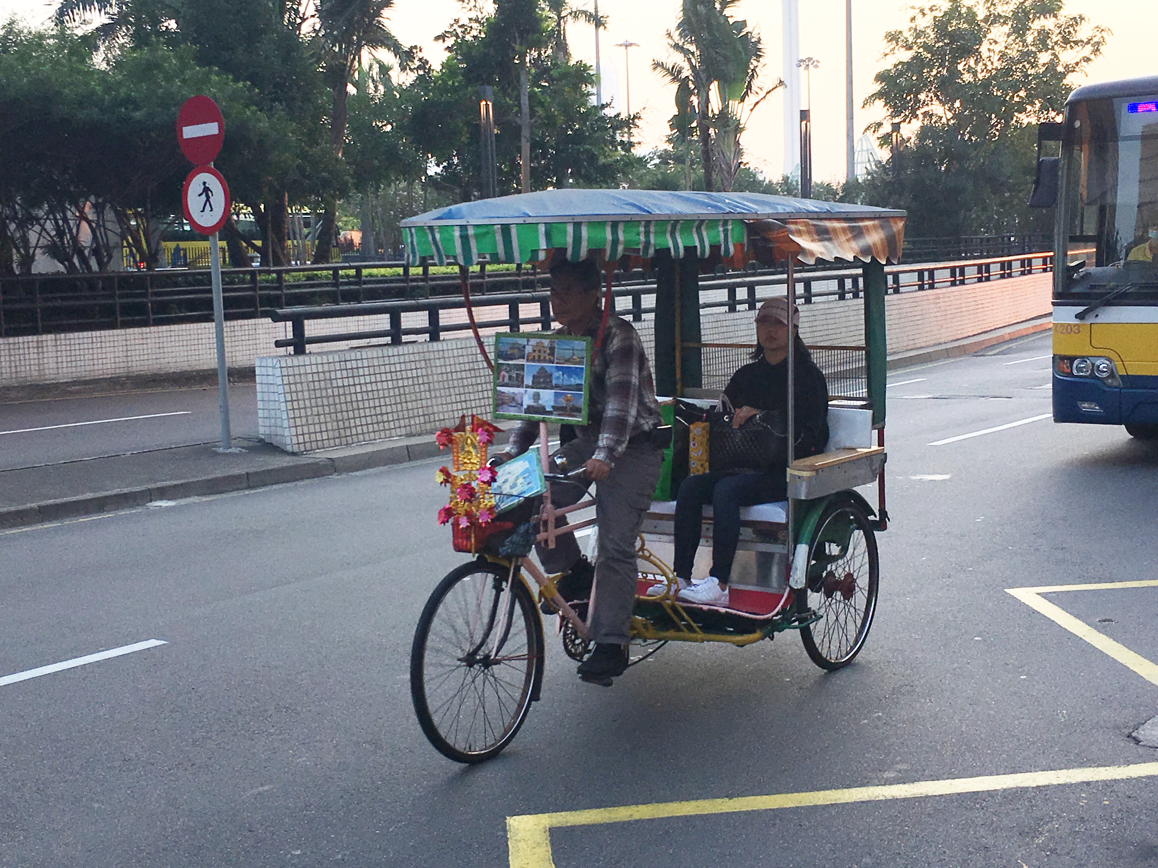 中文（香港）: This photo is taken in Hotel Lisboa Macau.